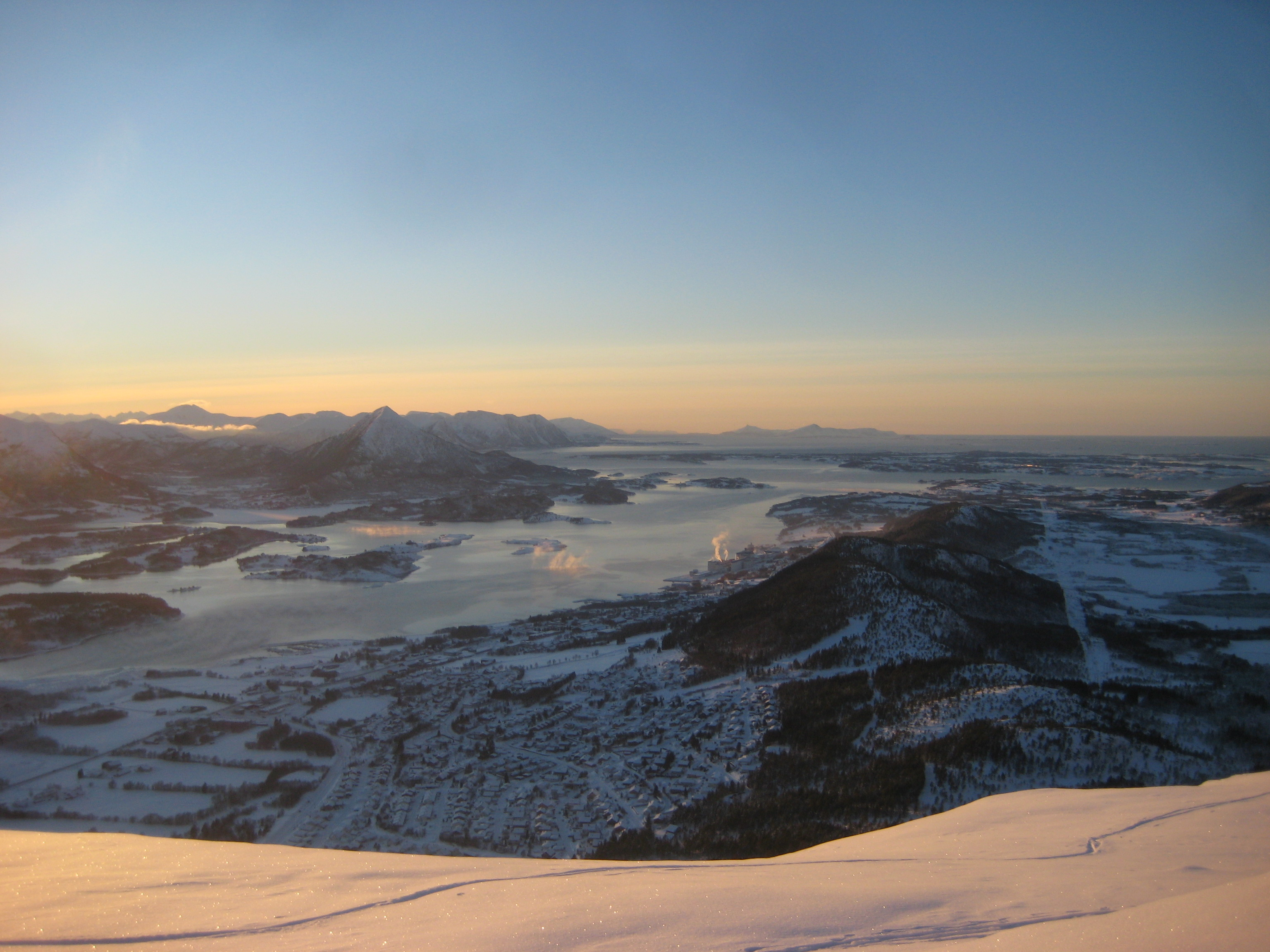 Elnesvågen seen from the Heiane mountain in winter